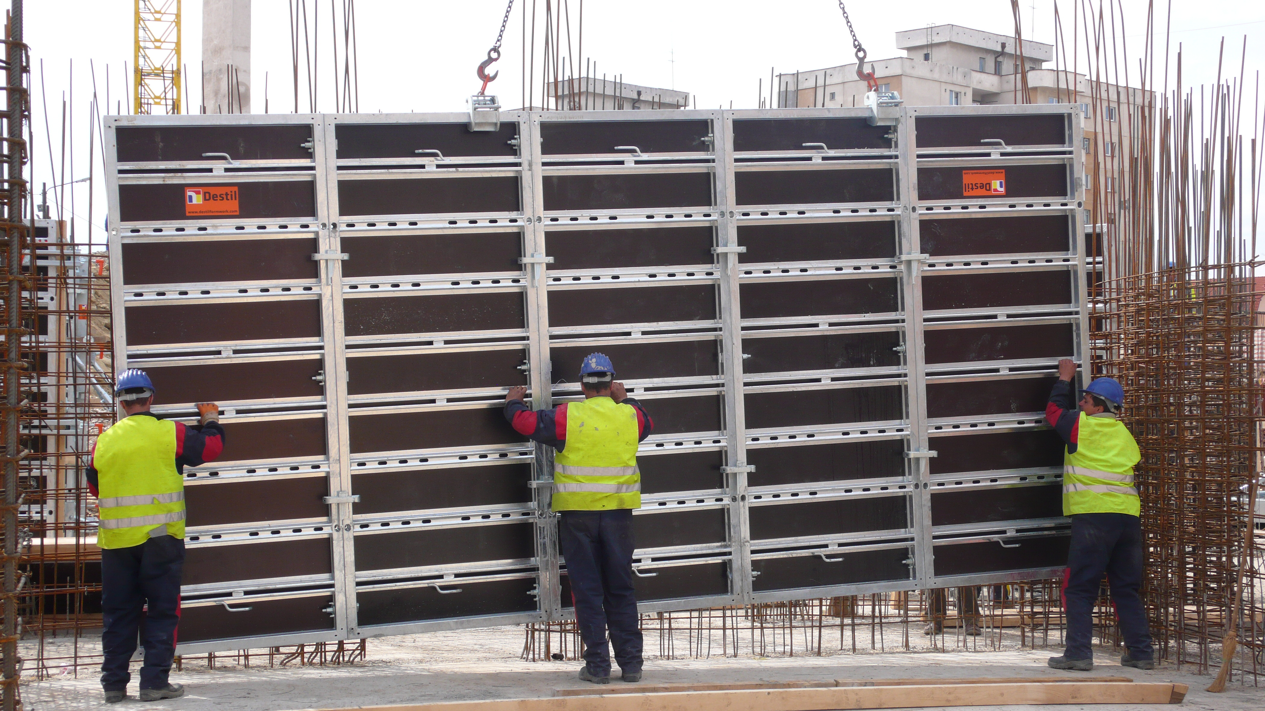 Construction building to Romania - pose formwork